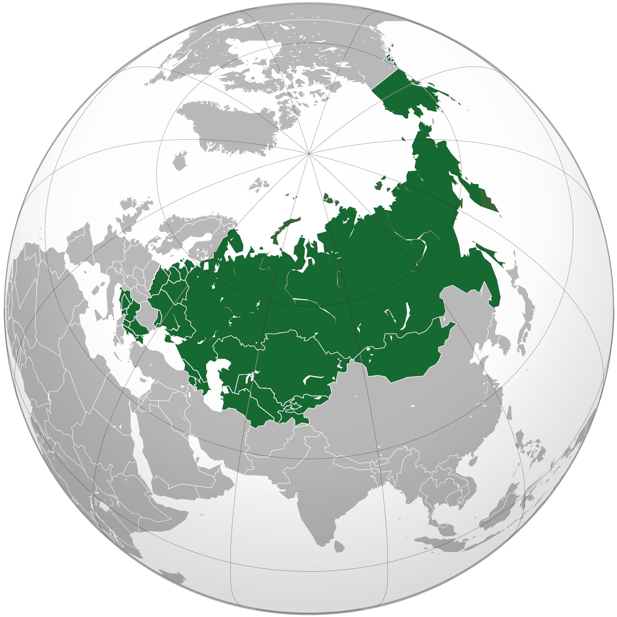 Plan of the territory of Great Russia.